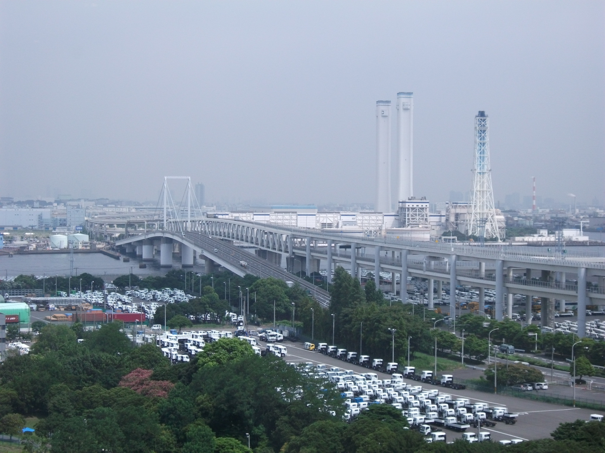 Daikoku-Ōhashi (Yokohama, Japan)